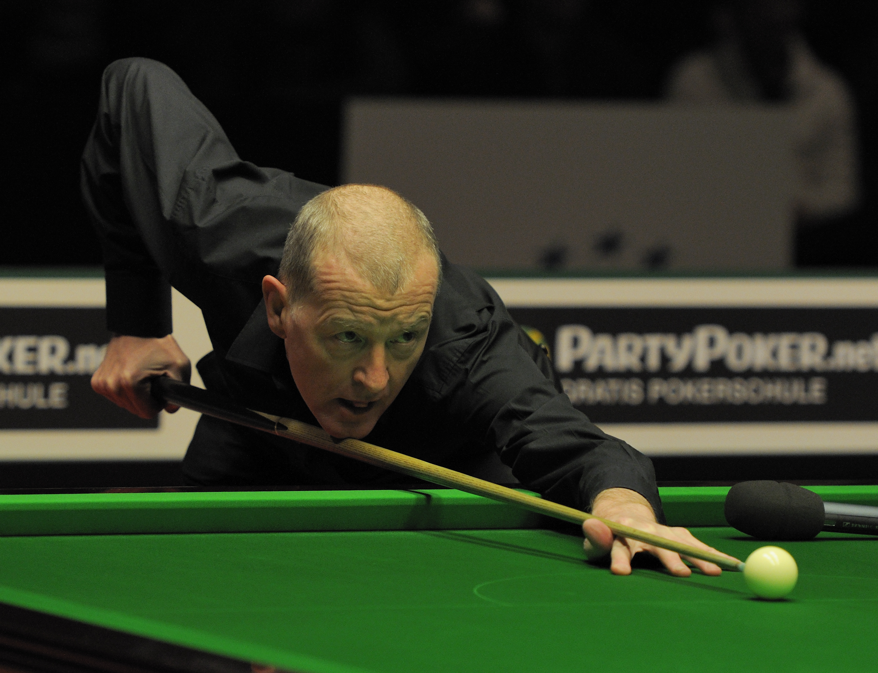 Picture taken in Berlin during the Snooker German Masters in 2011. Steve Davis.